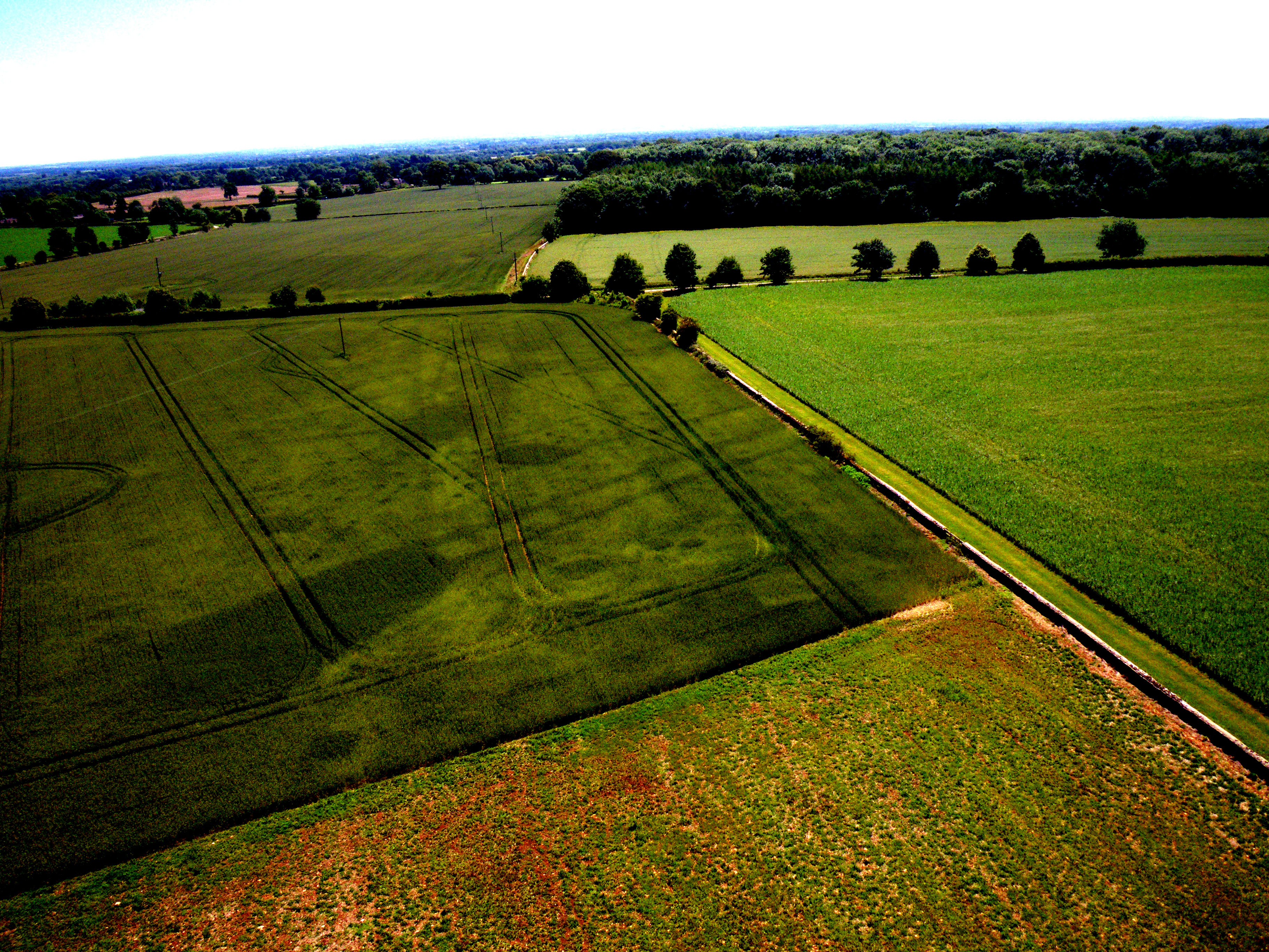 Kite aerial photo of crop marks at Nesley, near Tetbury, Gloucestershire, adjacent to an excavation of a Roman building.